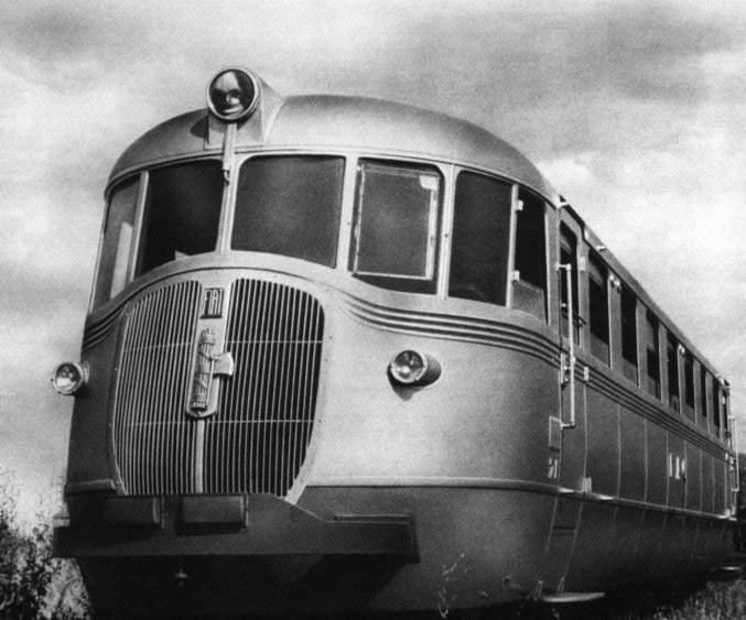 Libyan railway Fiat's train.